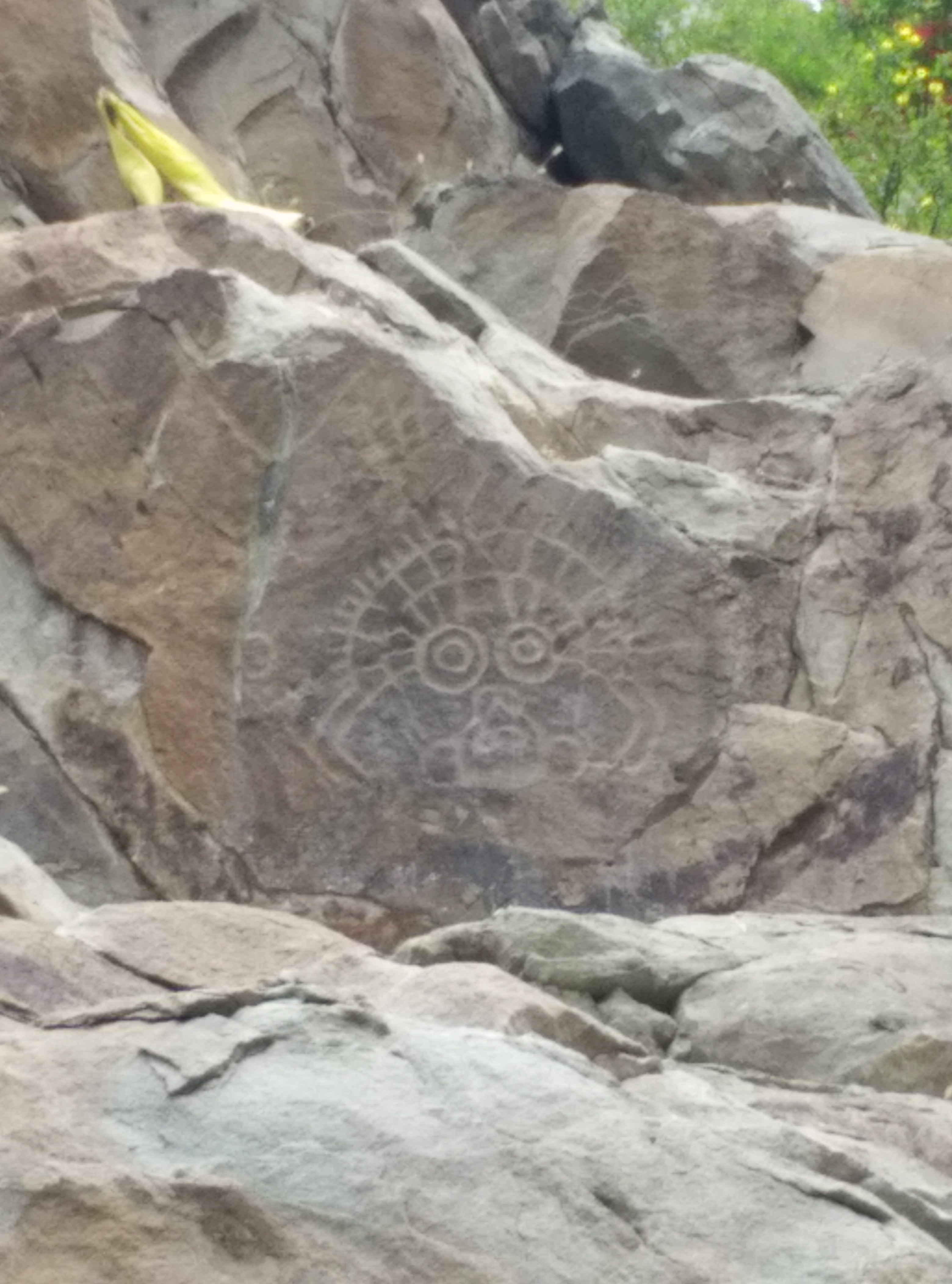 Drawing of the Sun spirit inside petroglyphs Helan Mountains, in China.